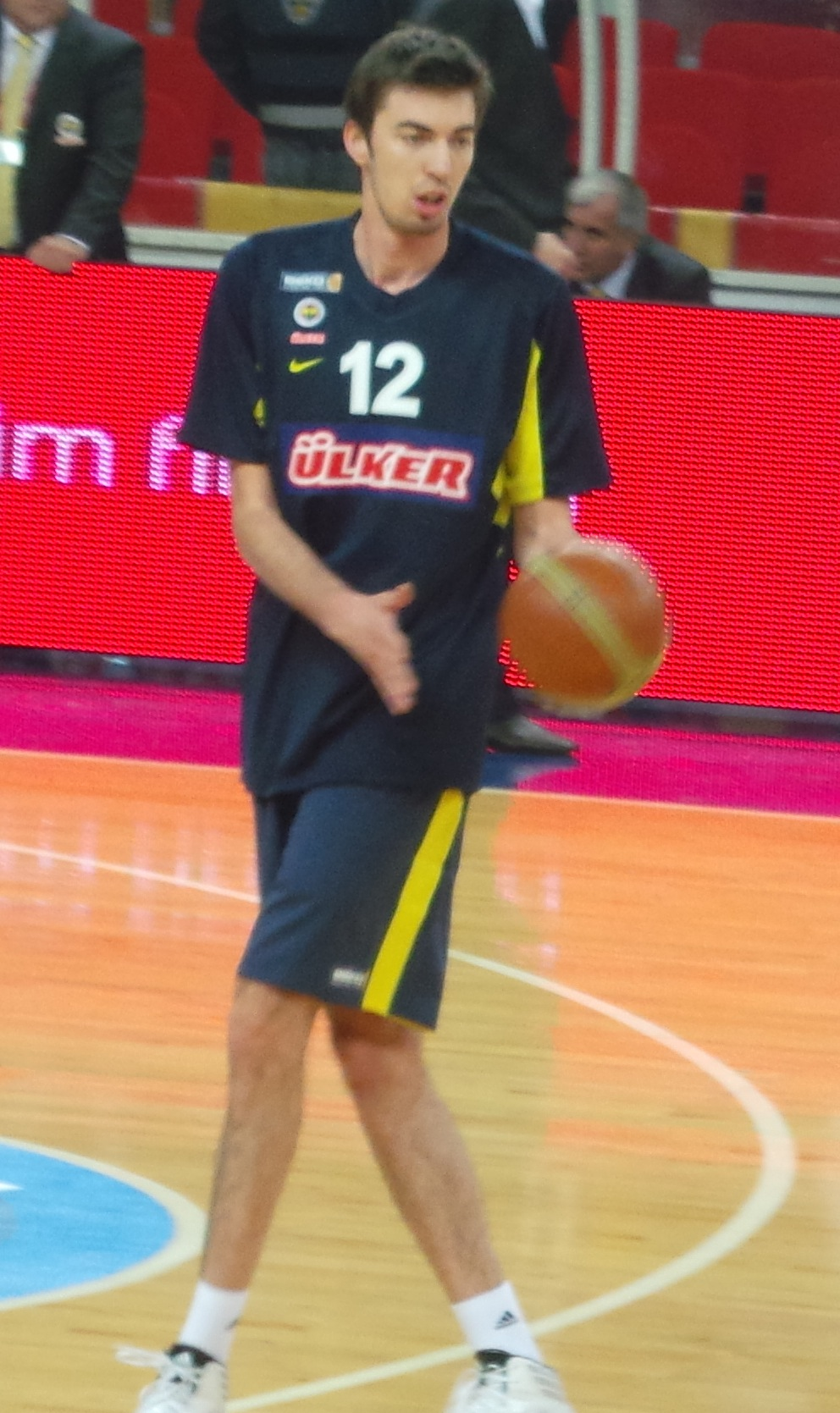 İzzet Türkyılmaz